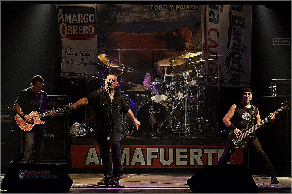 Almafuerte playing at Willie Dixon